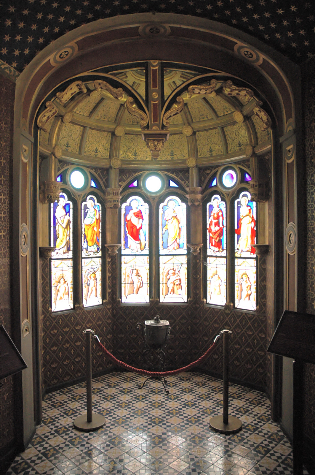 Château de Blois, the queen's oratorio